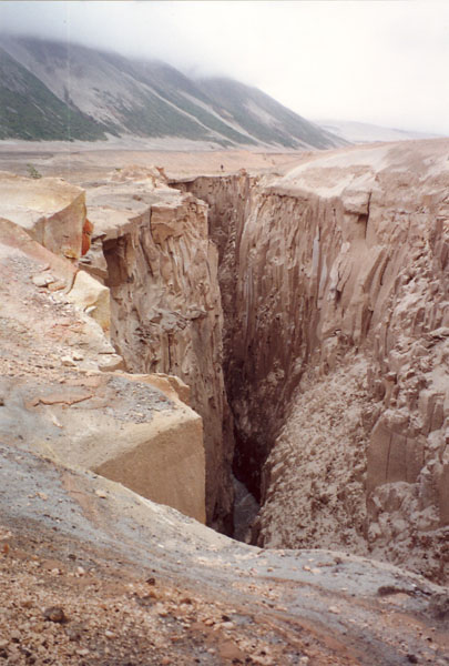 Erin McKittrick, Ground Truth Trekking, own work